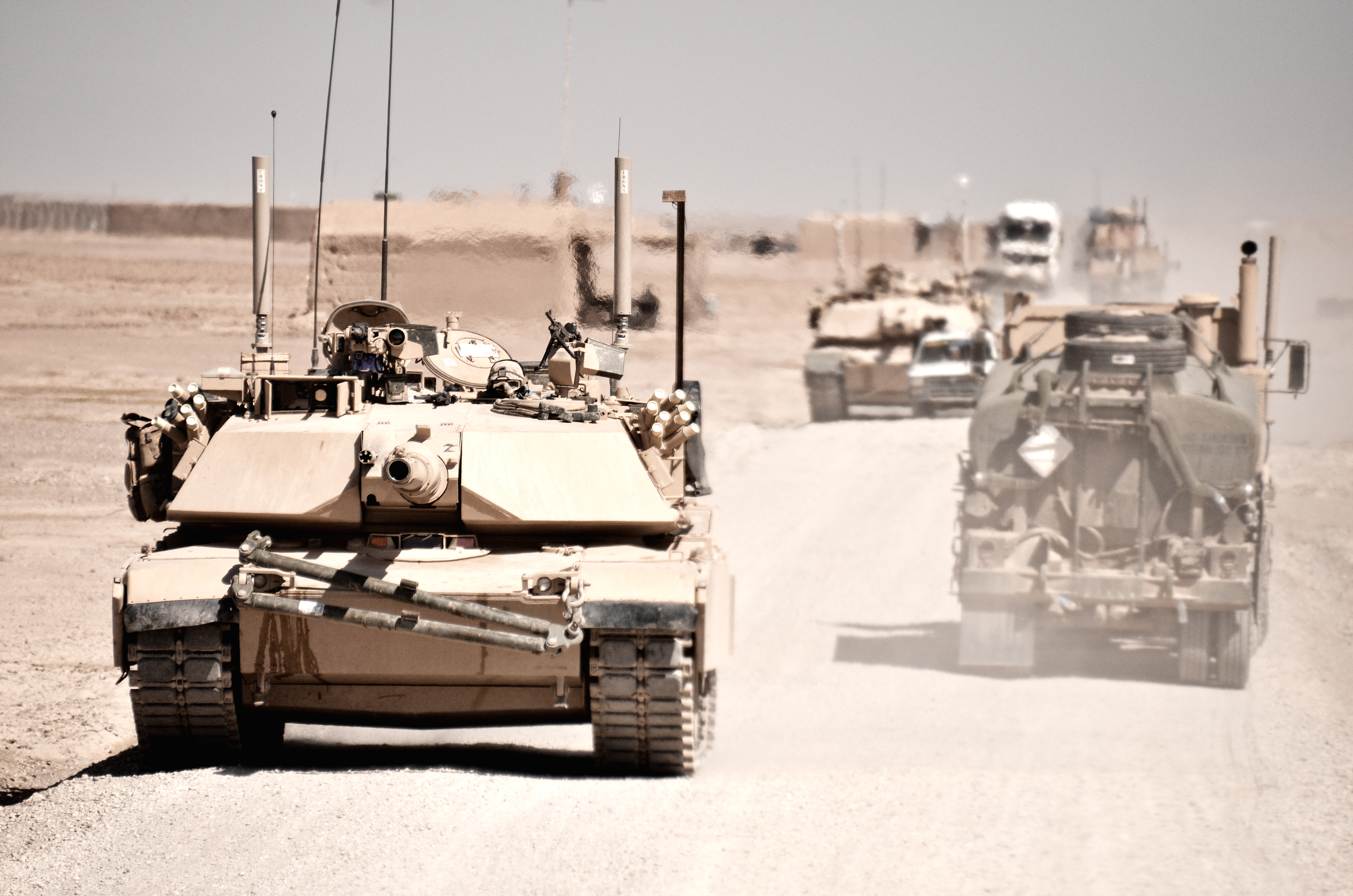 1st Tank Battalion tanks pass a Combat Logistics Battalion 4 AMK31 Refueler truck on a combat logistics patrol here March 13. The patrol supported counterinsurgency operations in the area. CLB-4 is part of 1st Marine Logistics Group (Forward), I Marine Expeditionary Force (Forward). 1st Tank Battalion falls under Regimental Combat Team 6, I MEF (Fwd).